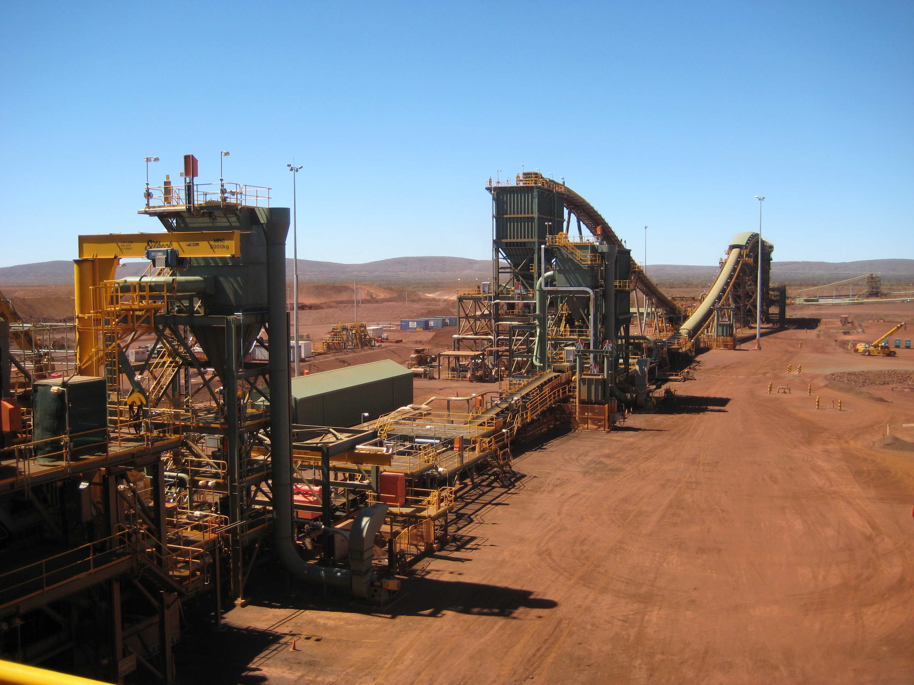 The plant at the Brockman 4 mine in the Pilbara region of Western Australia.